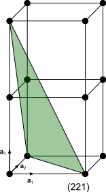 Cristal plane that spans through two unit cells.